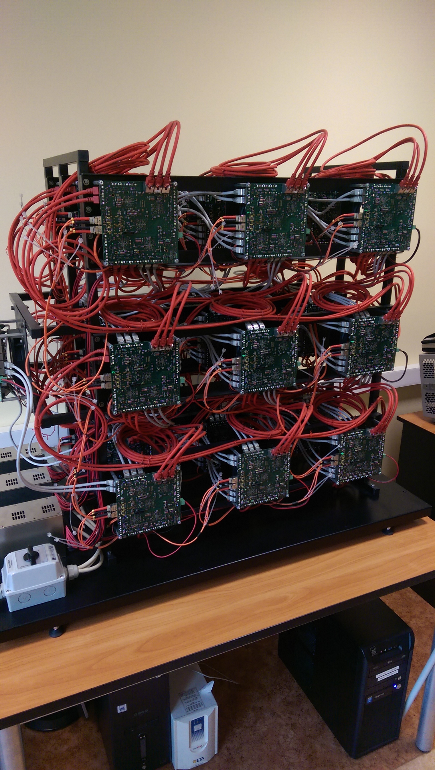 mDLL - The prototype of the scalable, parallel simulator of chemical processes (in cooperation with DMP LUT)